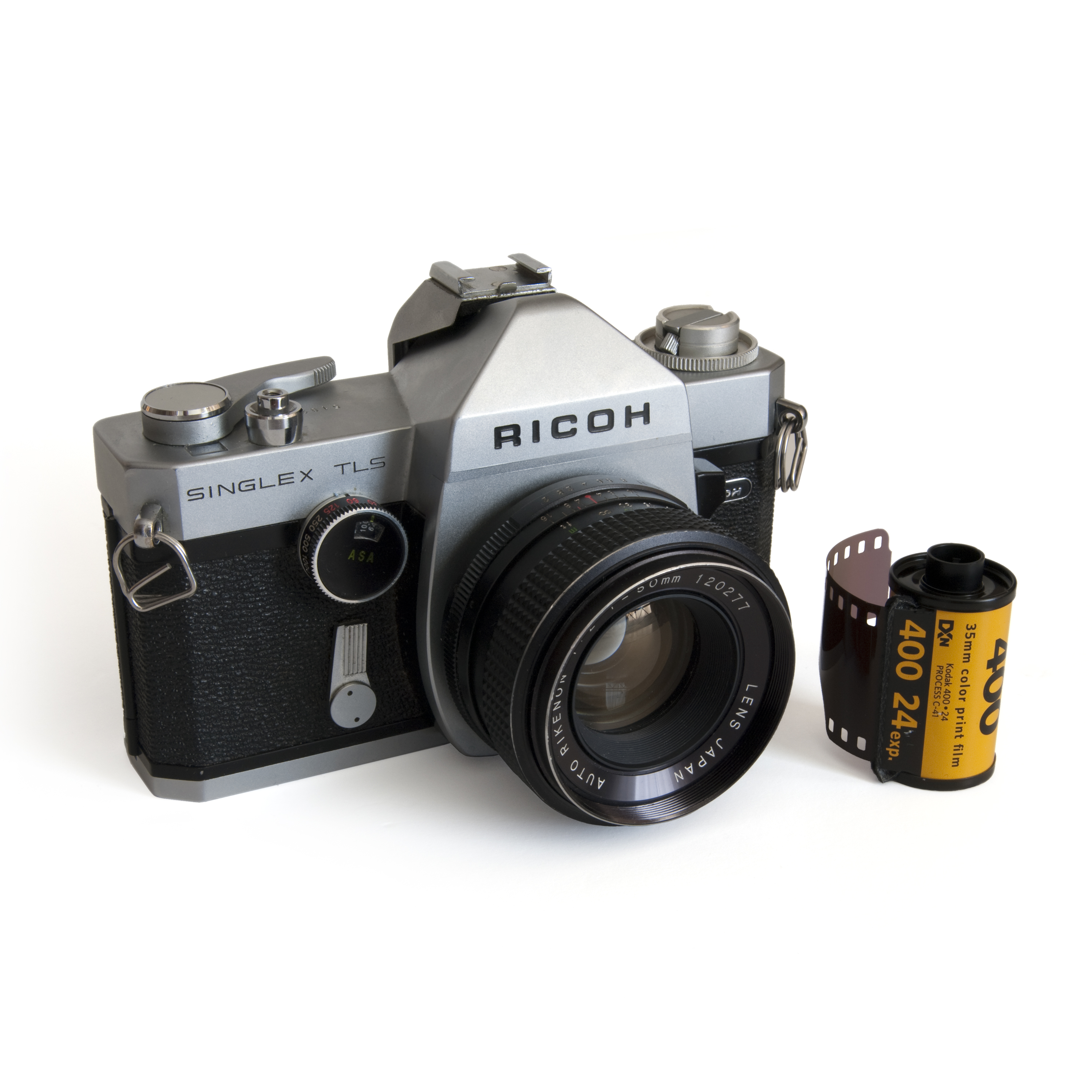 Ricoh Singlex TLS camera with Rikenon 50mm F2 lens. 35mm film canister included for scale.